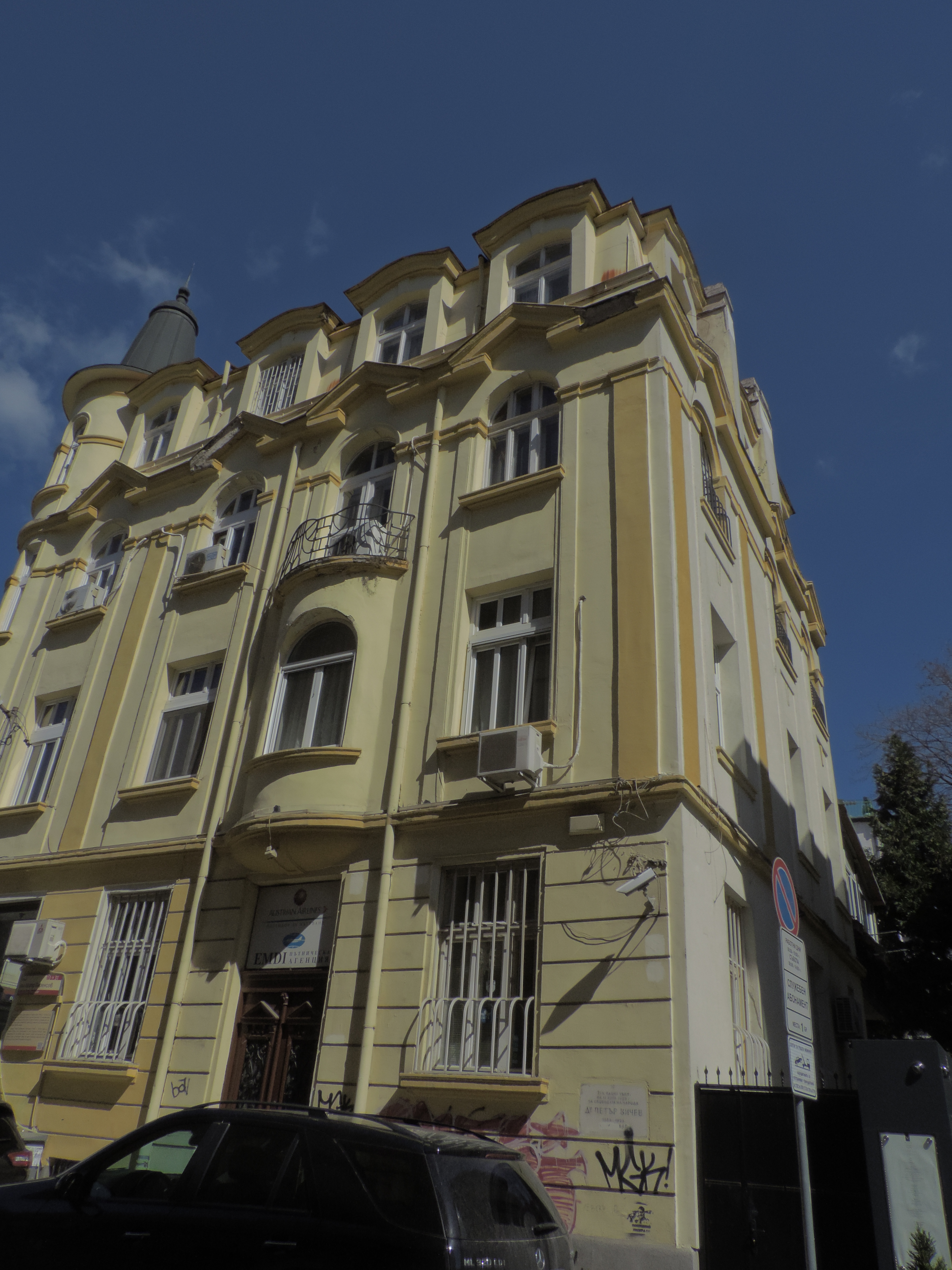 The house of the Bulgarian journalist Petar Vichev, located on 31 Ivan Shishman Str, Sofia, Bulgaria